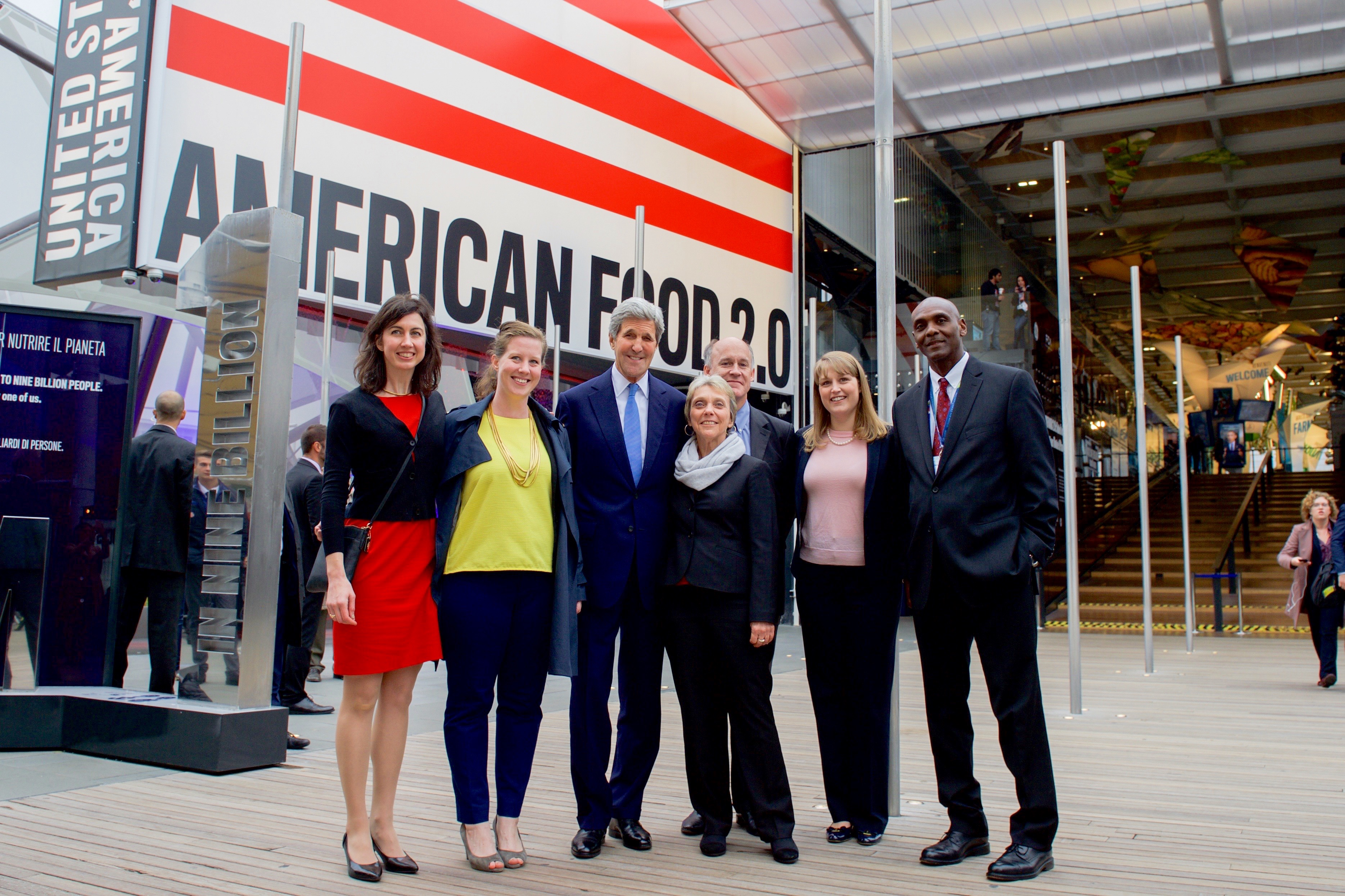 Secretary Kerry and Special Representative Stetson pose with staff at Expo Milan in October 2015